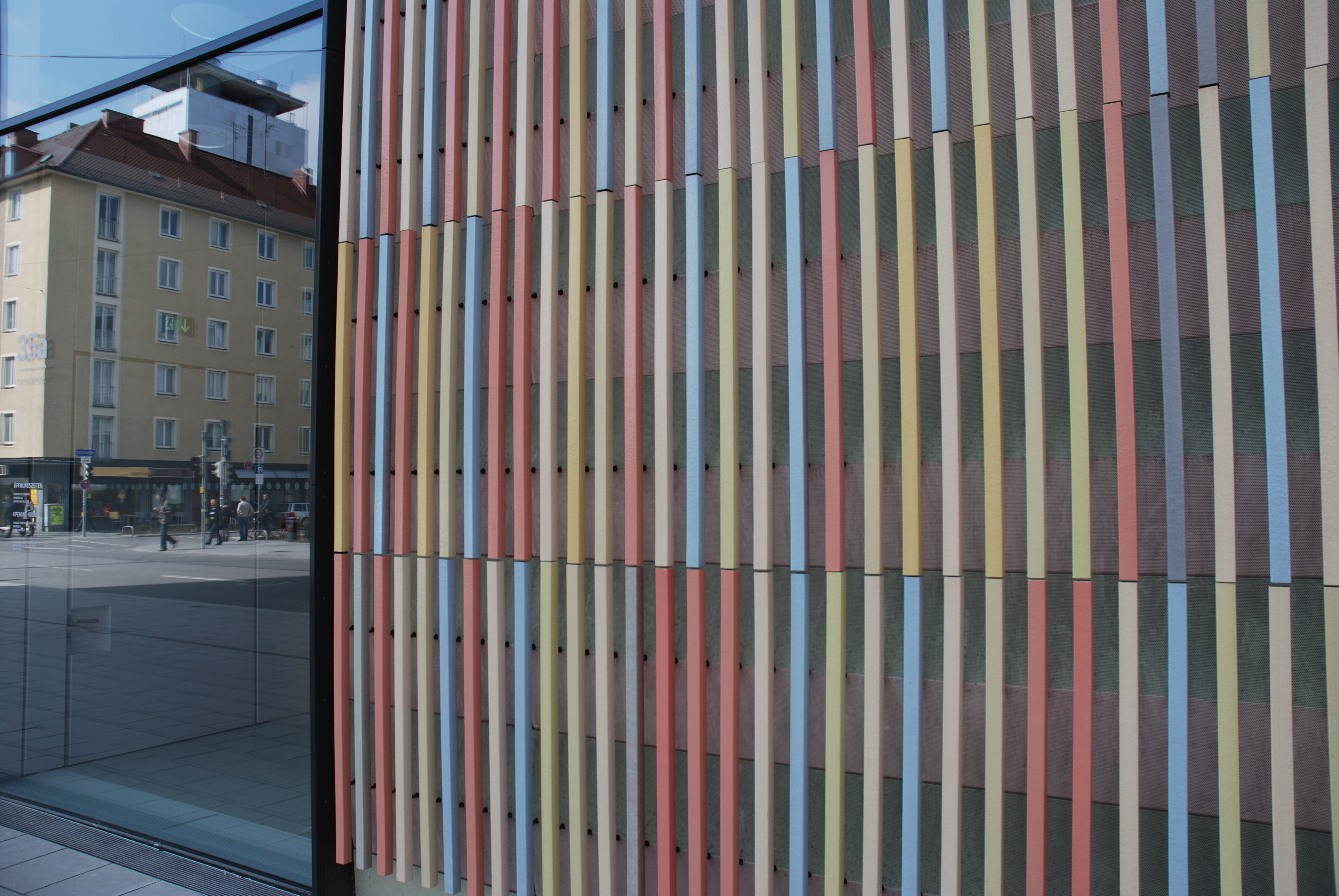 Museum Brandhorst in München. Detail of facade panels